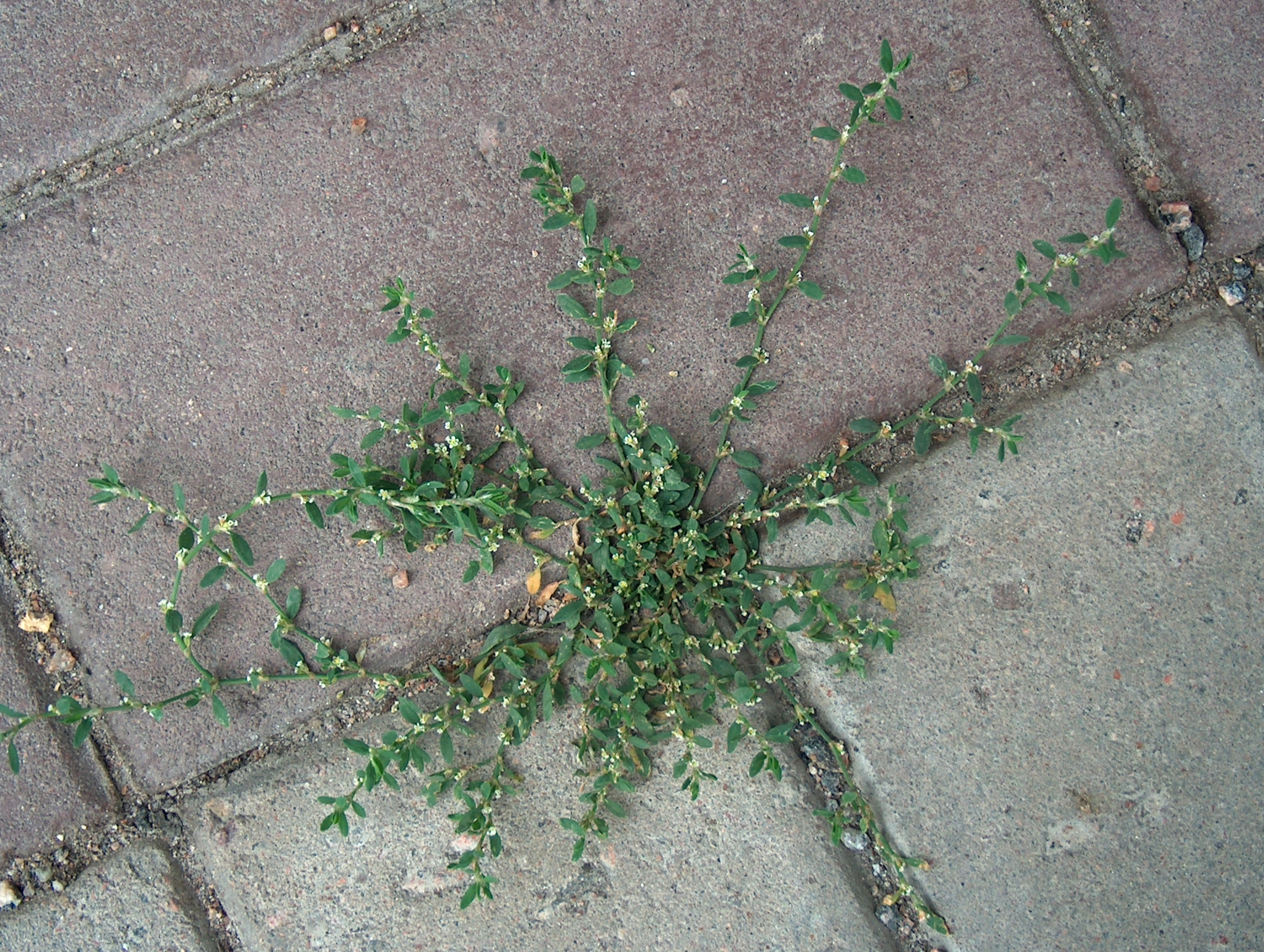 Polygonum aviculare, Common Knotgrass - Helsinki, Finland